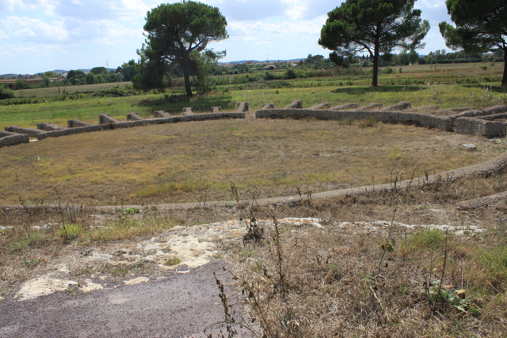 Lucius Feroniae (Italy). The amphitheater.